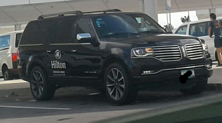 2015-2017 Lincoln Navigator photographed in Cancun, Quintana Roo, Mexico with a Hilton logo.